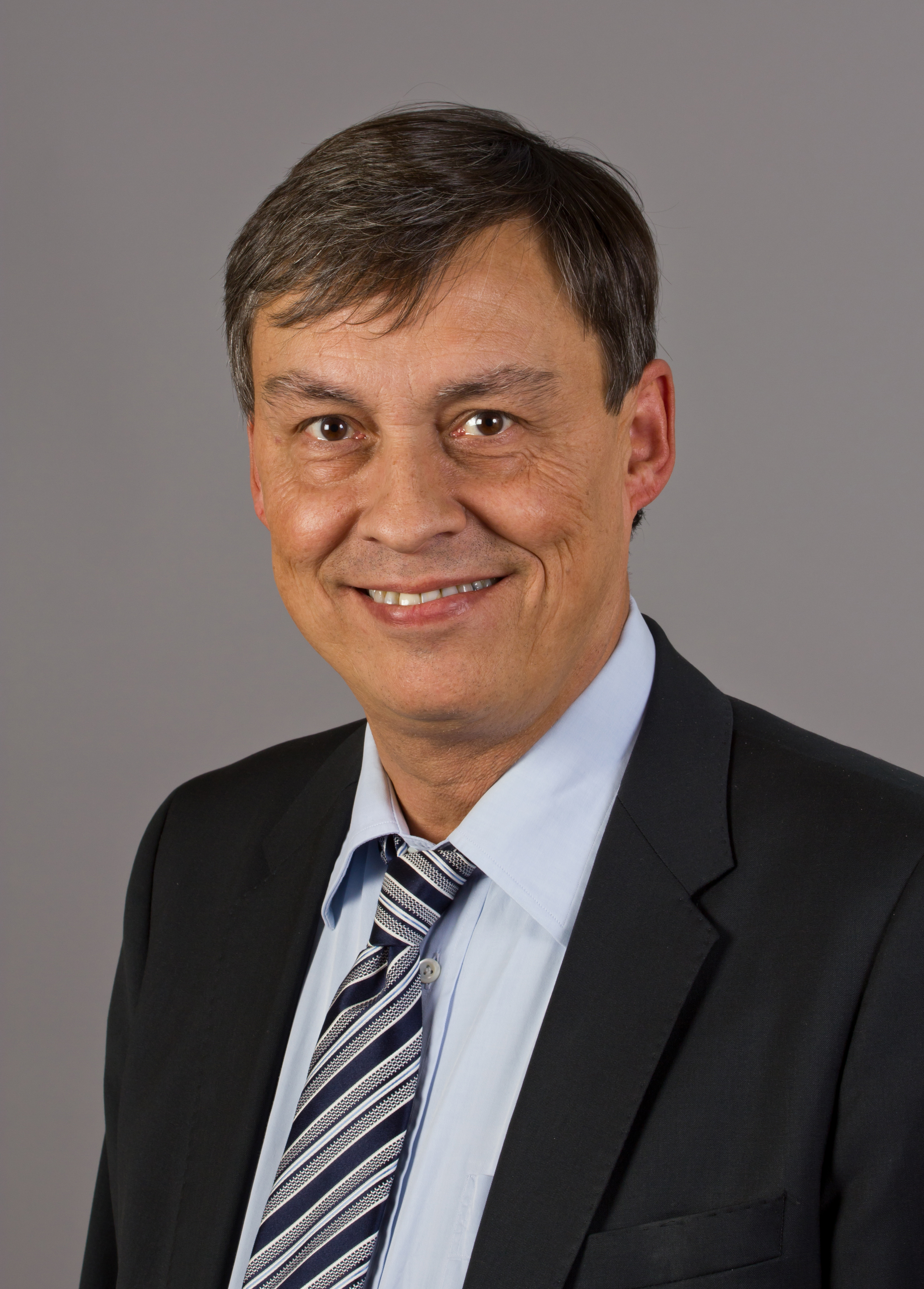 Michael Braun, politician from Germany, member of Abgeordnetenhaus of Berlin (as of 2013)